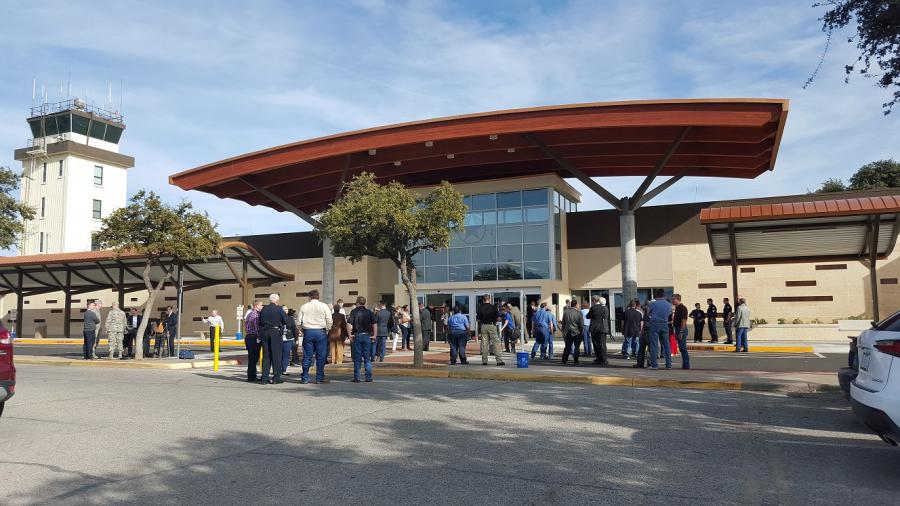 The Front Terminal at San Angelo Regional Airport